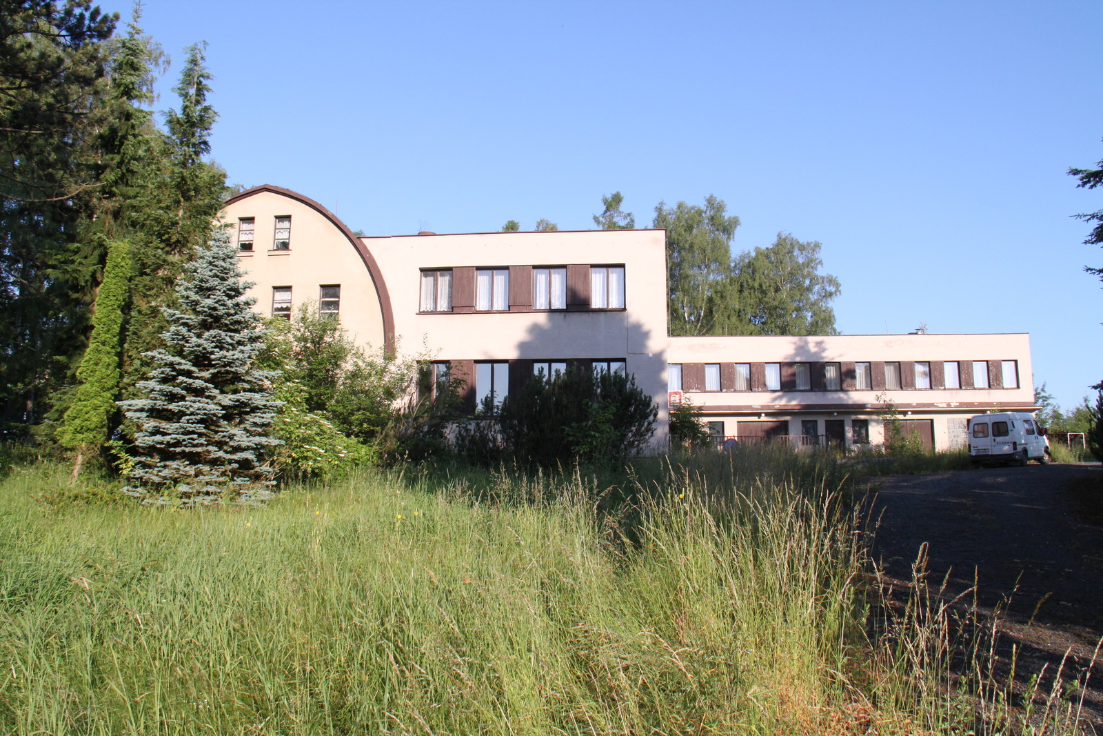 Jiraskova Chata, Turov hill